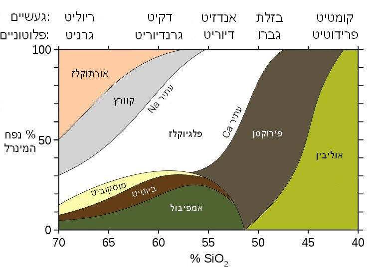 Mineralogical composition of igneous rocks